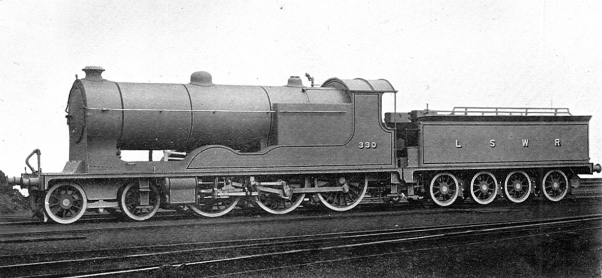 The biggest passenger engine in Great Britain. Four cylinder simple for the London & South Western Railway LSWR F13 class 4-6-0